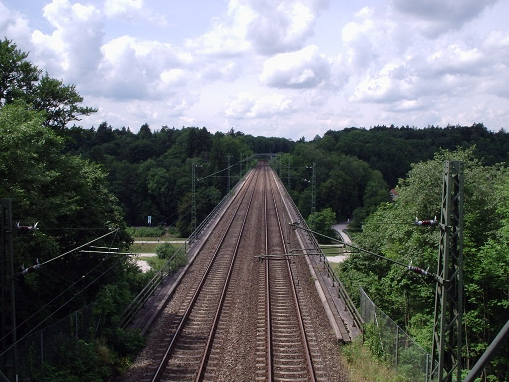 Großhesseloher Brücke in Munich, Germany; view from the top